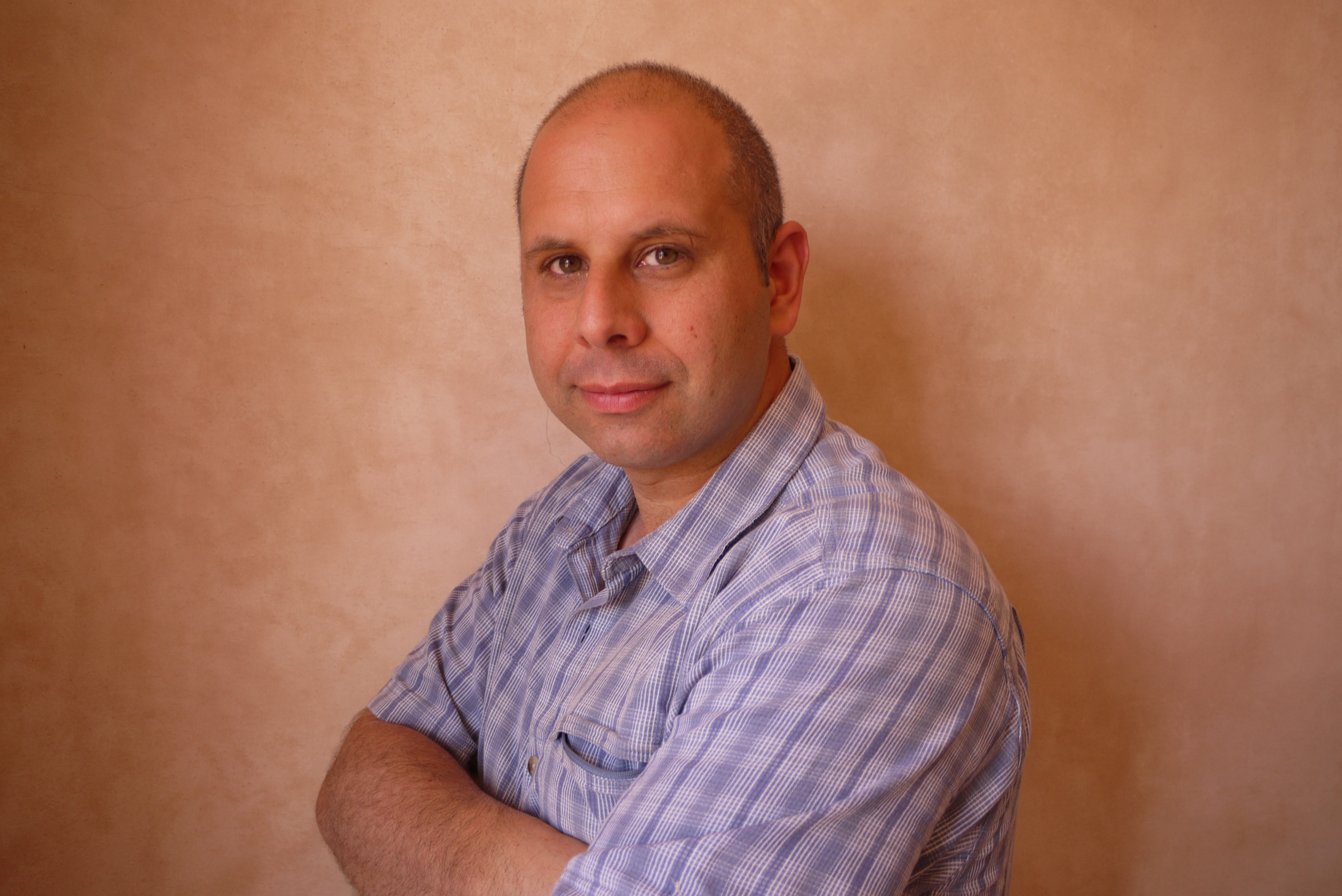 A photograph of the travel writer, Tahir Shah.